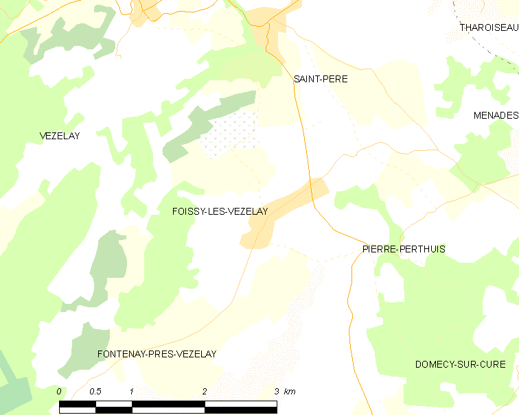 Map of French municipality Foissy-lès-Vézelay